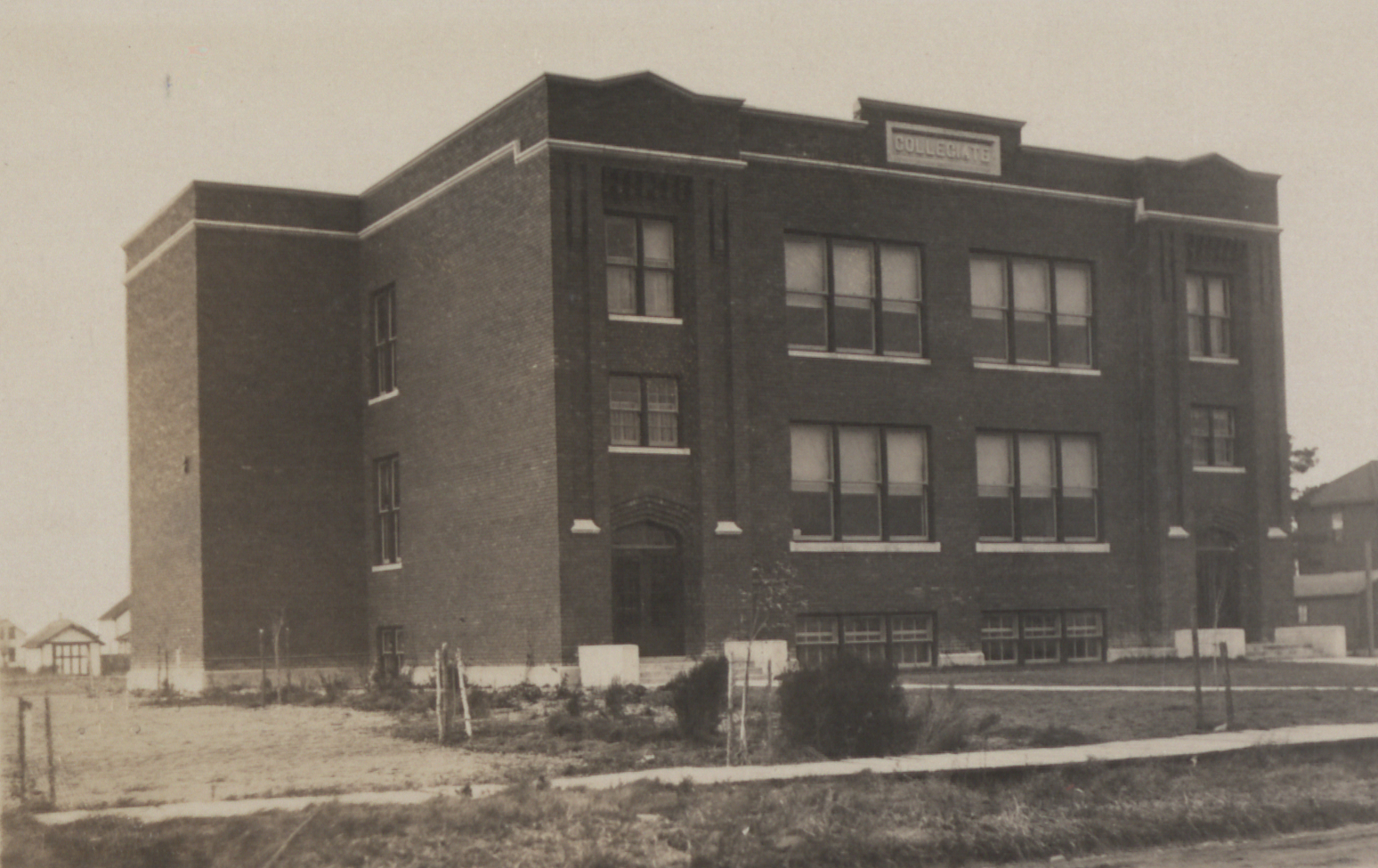 Original caption: “Fort Frances High School.”